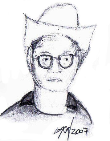 Caricature of Augusto Bracca